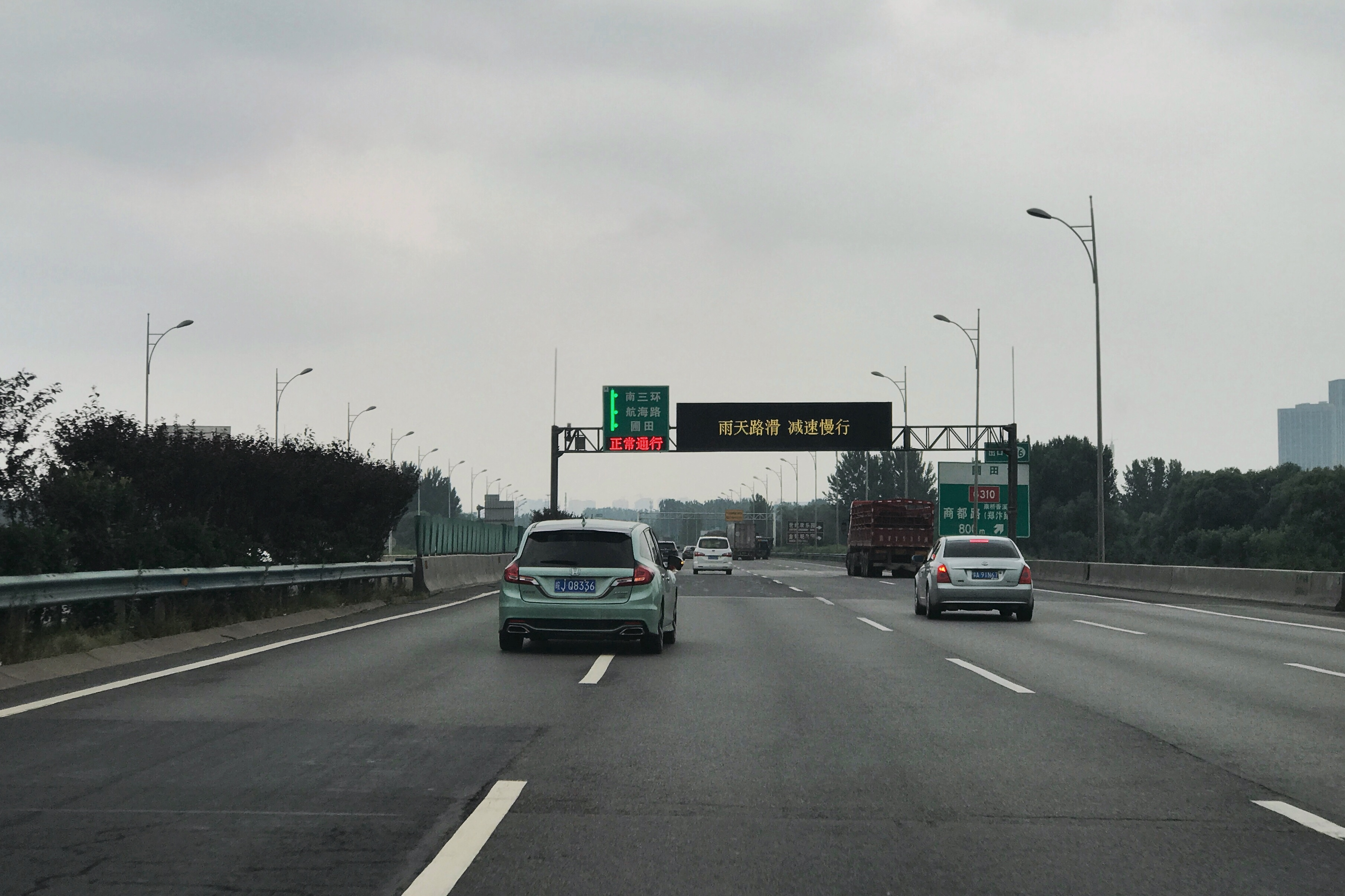 G4 Expressway Zhengzhou section (near Putian exit)